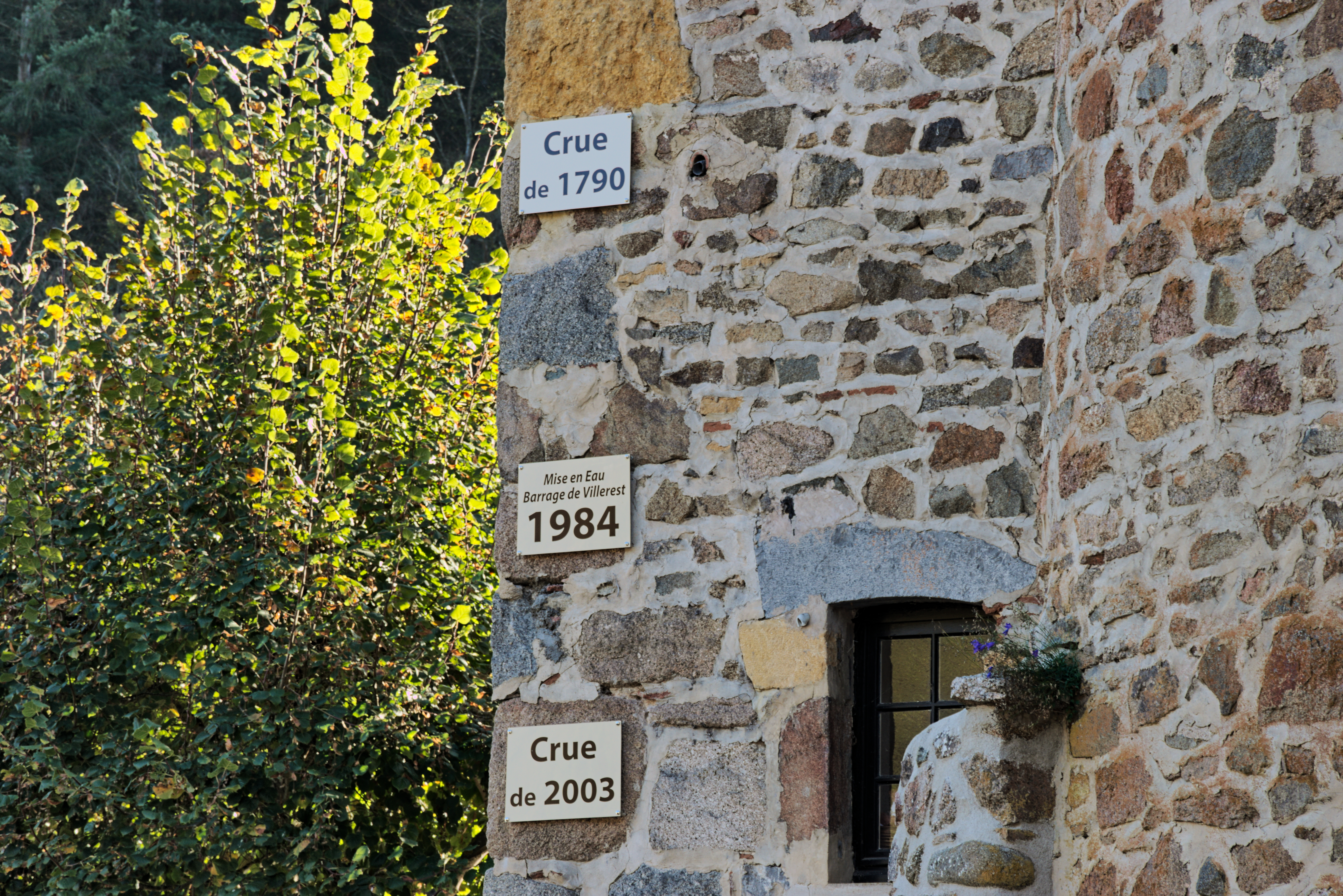 The flood level of the Loire at Château de la Roche. The Château de La Roche is a restored castle situated in the commune of Saint-Priest-la-Roche in the Loire département of France, 20 km from Roanne. The castle stands on an island in the lake formed by the Villerest dam.